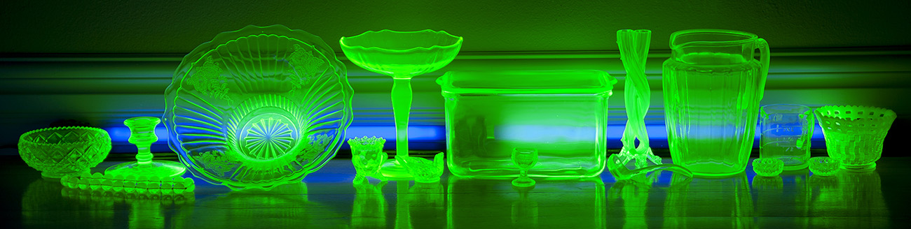 Various Vaseline glasswares glowing under a few large UV black lights.